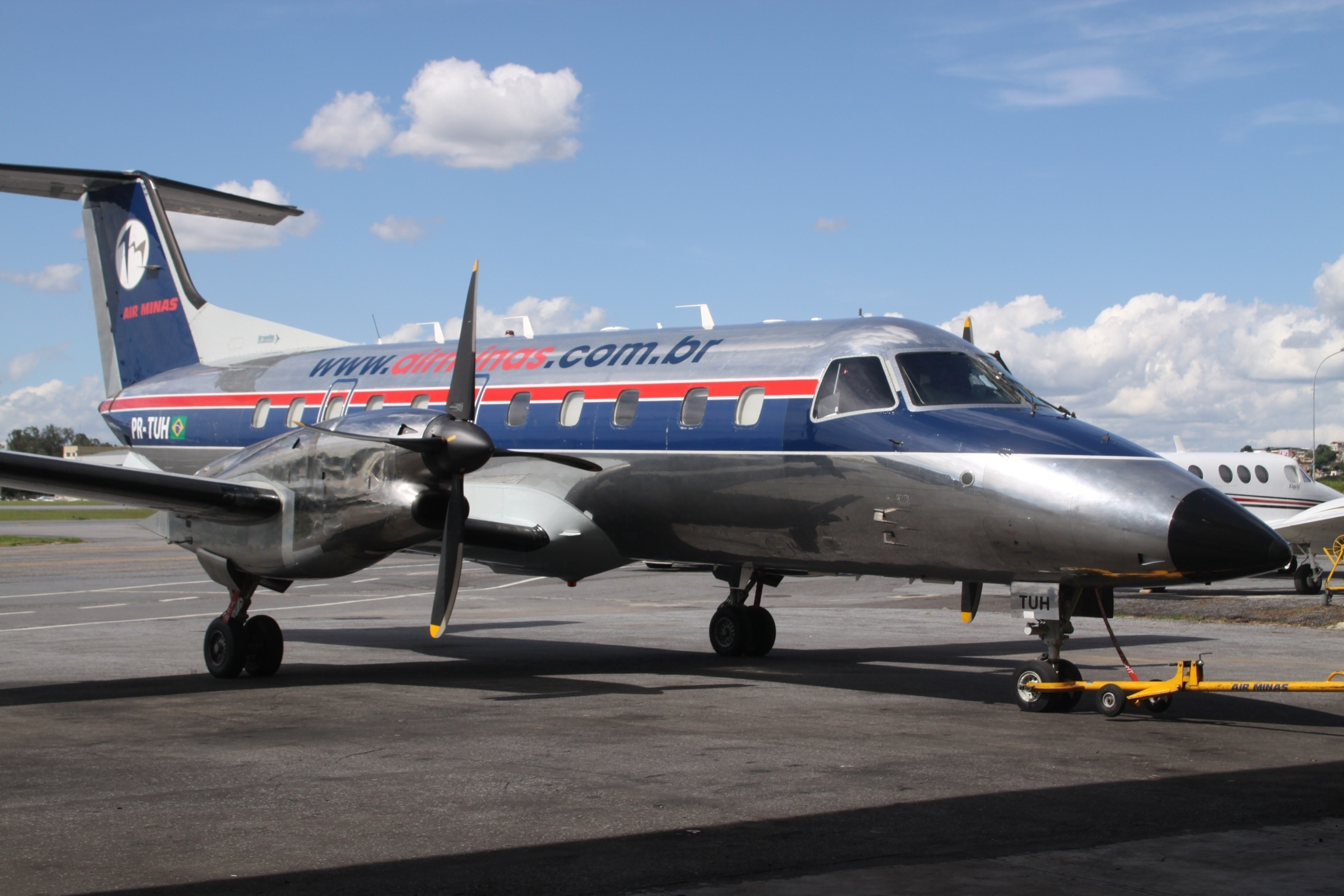 At Belo Horizonte Pampulha